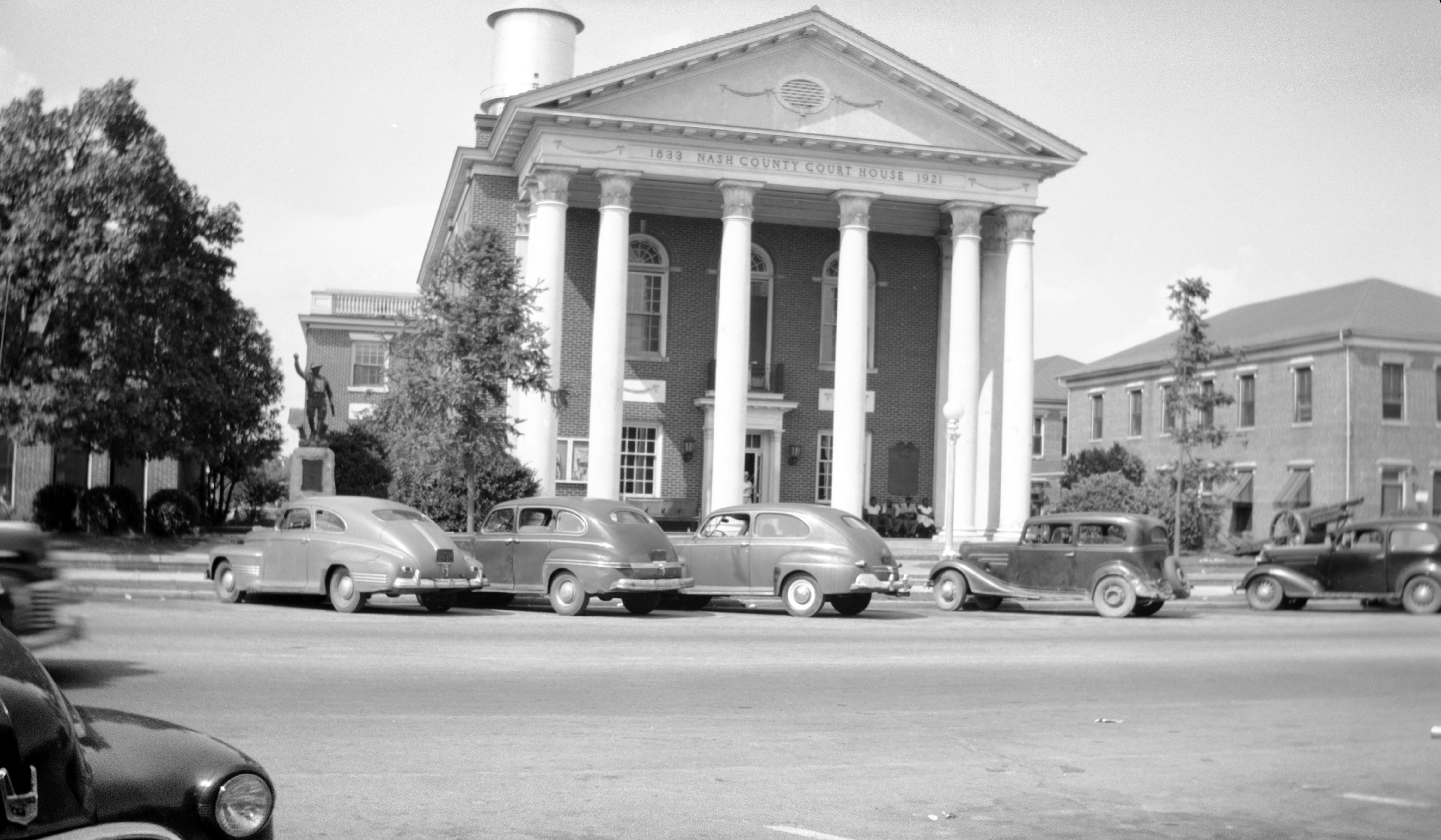 Nash County Courthouse, Nashville, NC, 22 July 1948, photo by Clarence Griffin, General Negative Collection, State Archives of North Carolina.